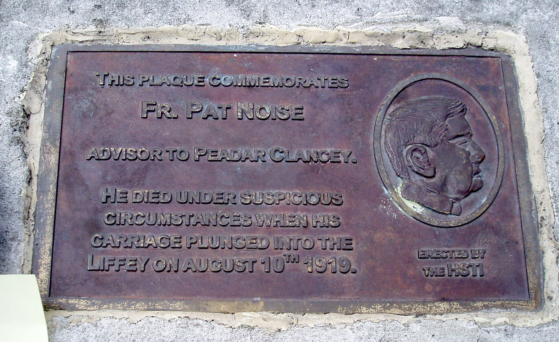 Plaque in memory of fictitious Catholic priest, Fr Pat Noise (on O'Connell Bridge,Dublin, Irland).